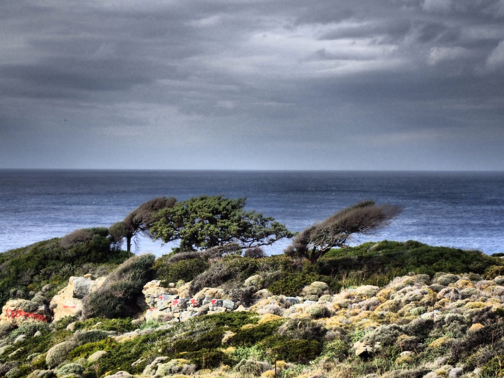 This is a photography of Natura 2000 protected area with ID GR4120005